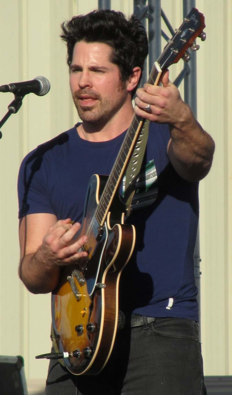 JT Hodges at WQYK's Santa Blast at the 1-800-ASK-GARY Amphitheater in Tampa, Florida on December 2, 2012.